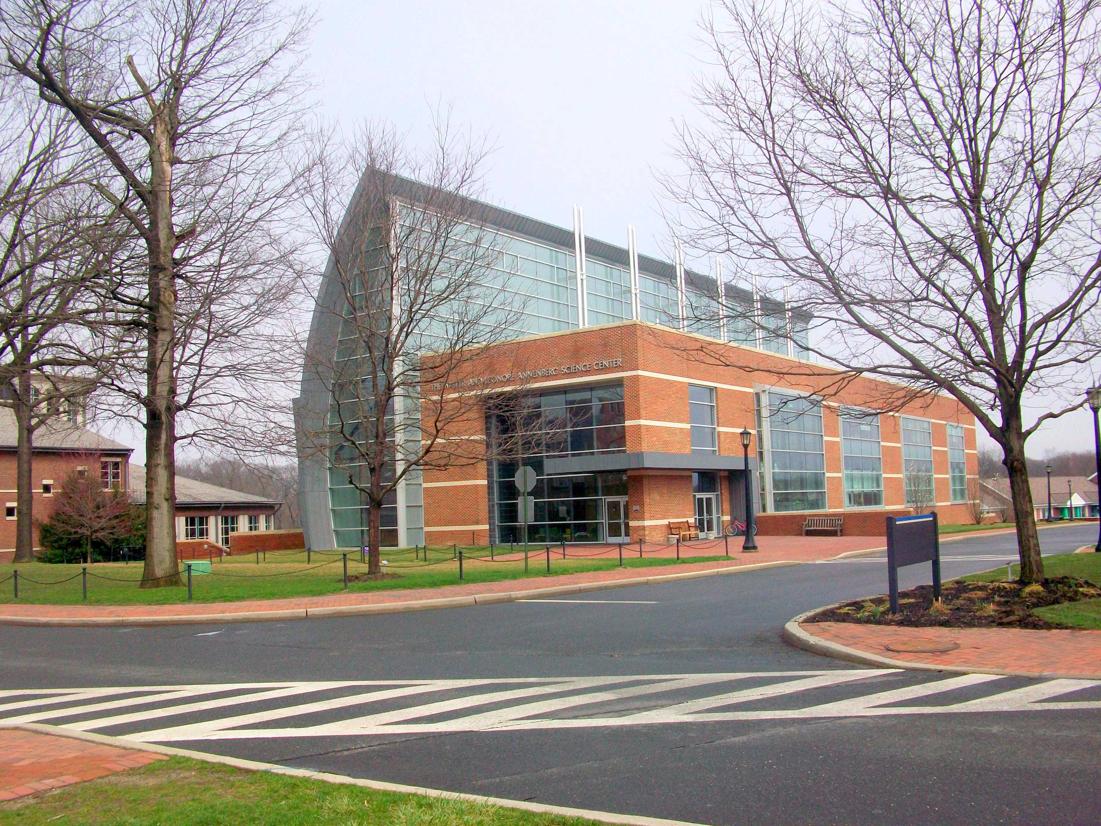 The Annenberg Science Center at The Peddie School